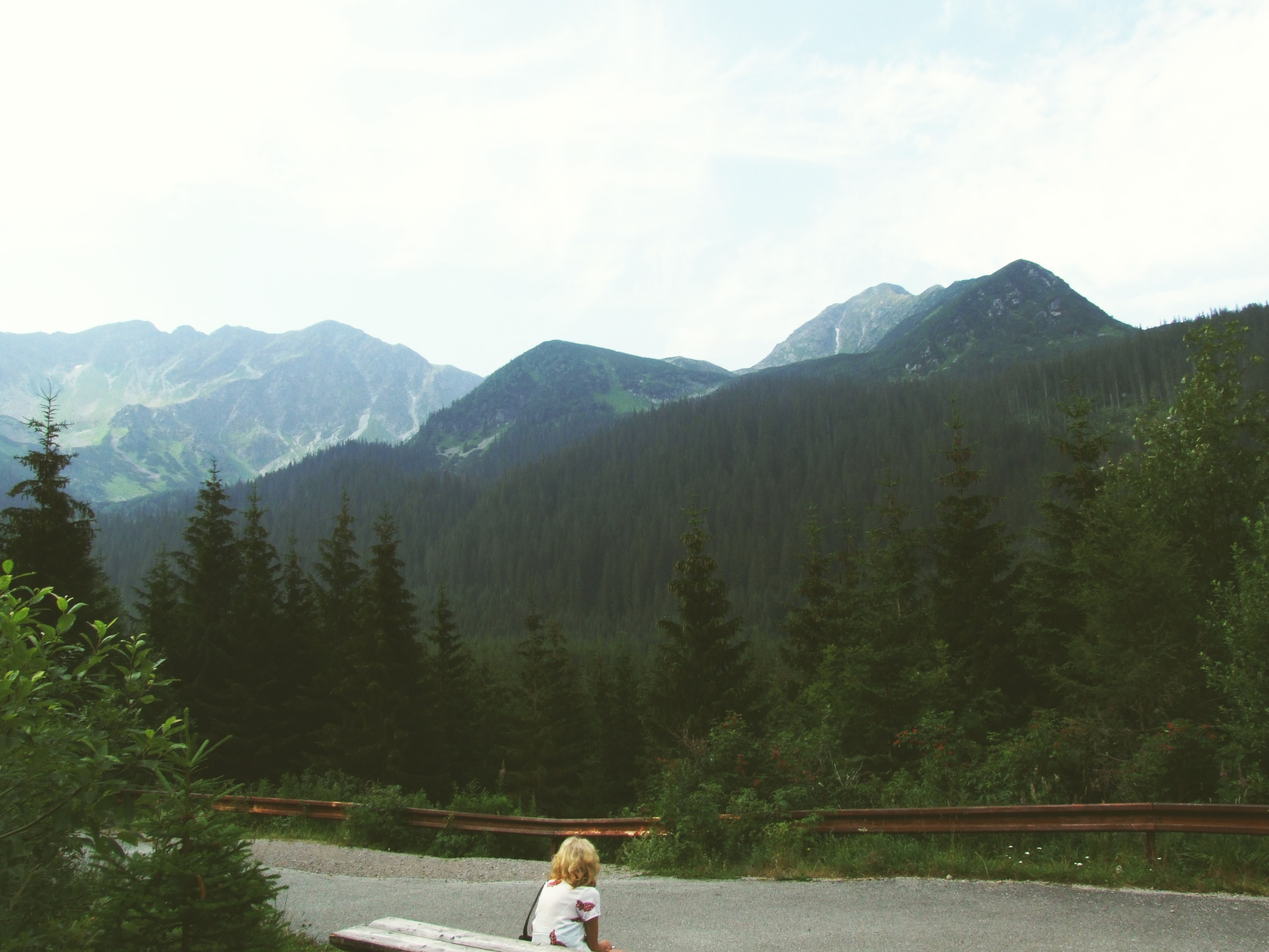 Roháčska Dolina (West Tatra Mountains), pl. Dolina Rohacka